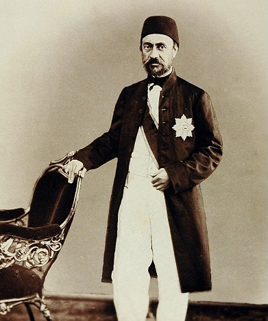 A cropped portrait of Mehmed Emin Ali Pasha (1815-1871) from the Bahattin Öztuncay collection.